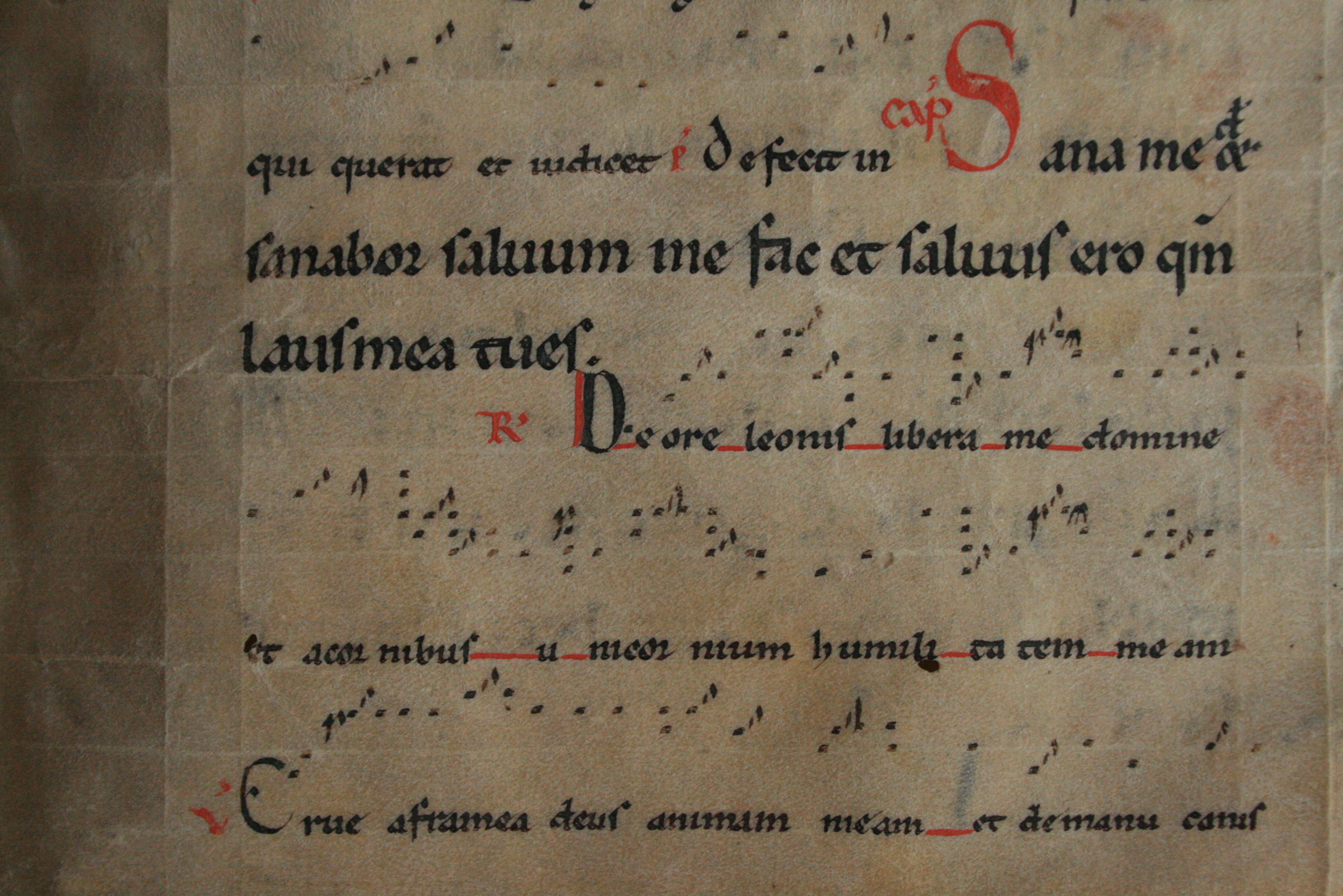 Adiastematic gregorian aquitanian notation. Manuscript kept in "Arxiu Comarcal del Bages". Manresa. Catalonia. Spain